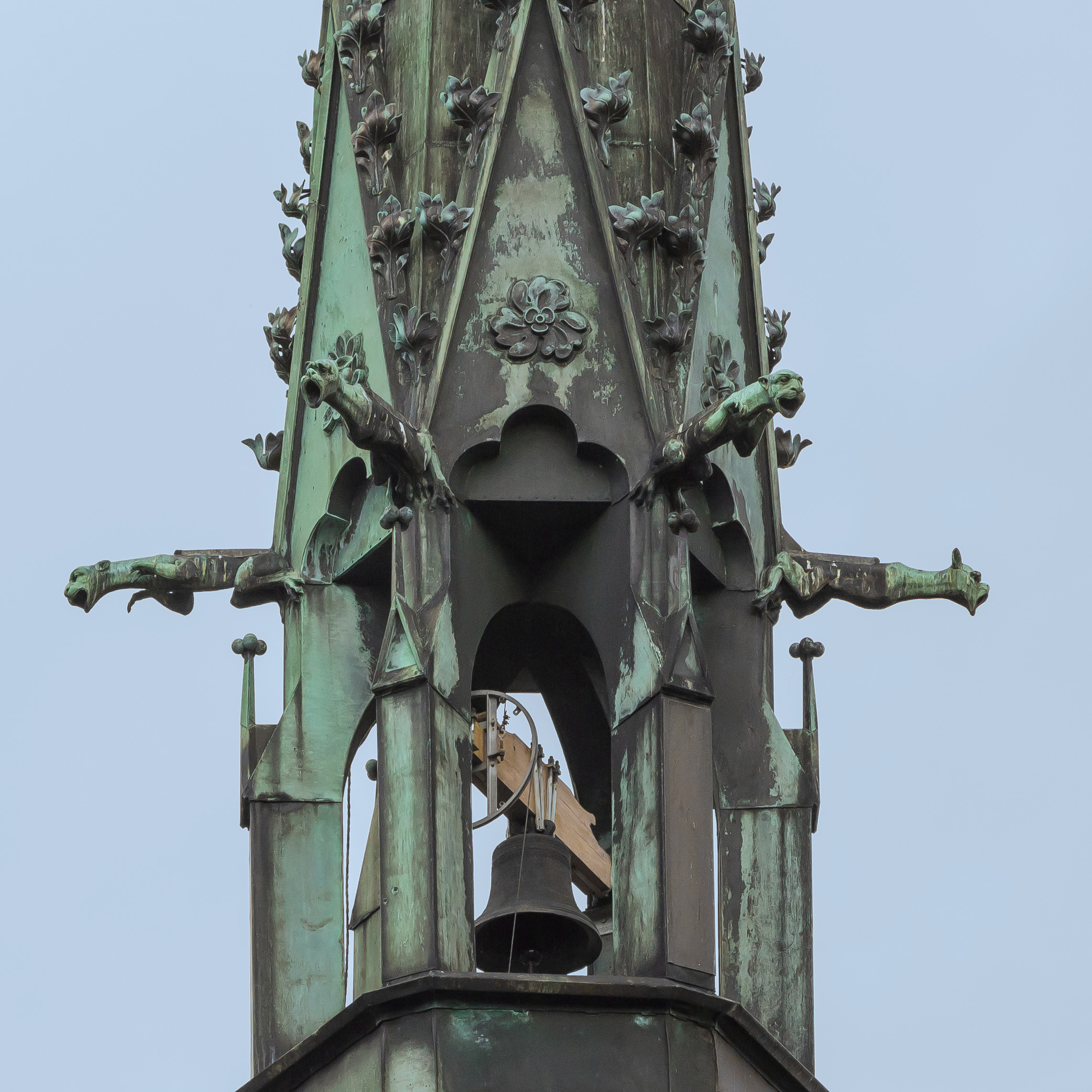 Metal gothic belfry of St Laurentius church, Ahrweiler